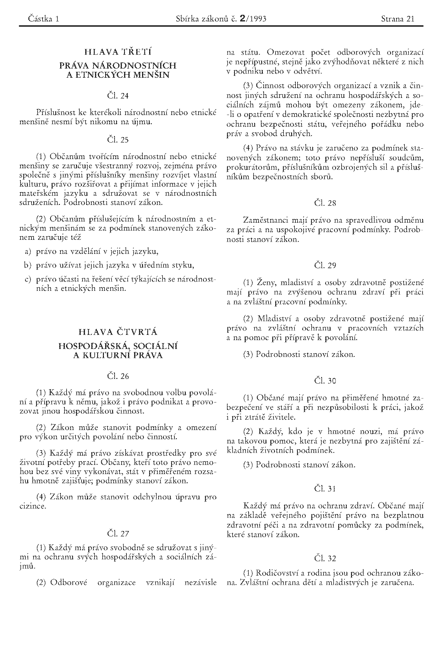 Czech Collection of Laws' official issue with the 1993 Constitution No. 1/1993 Coll. Česky: Stejnopis Sbírky zákonů s Ústavou České republiky (1/1993 Sb.) a Listinou základních práv a svobod (2/1993 Sb.)